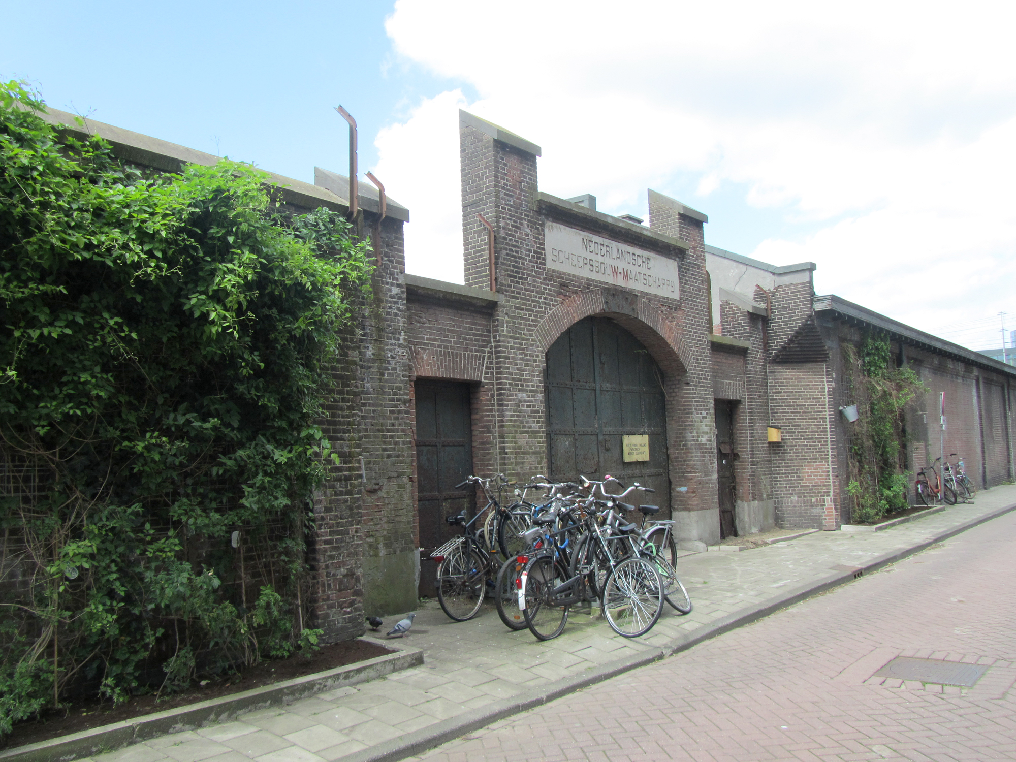 Remains of the Nederlandsche Scheepsbouw Maatschappij shipyards built in 1894 at Conradstraat in Amsterdam